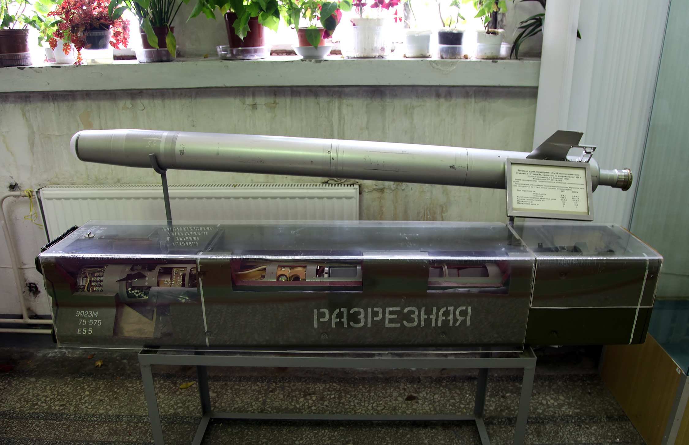 9M31 SAM for 9K31 Strela-1 system